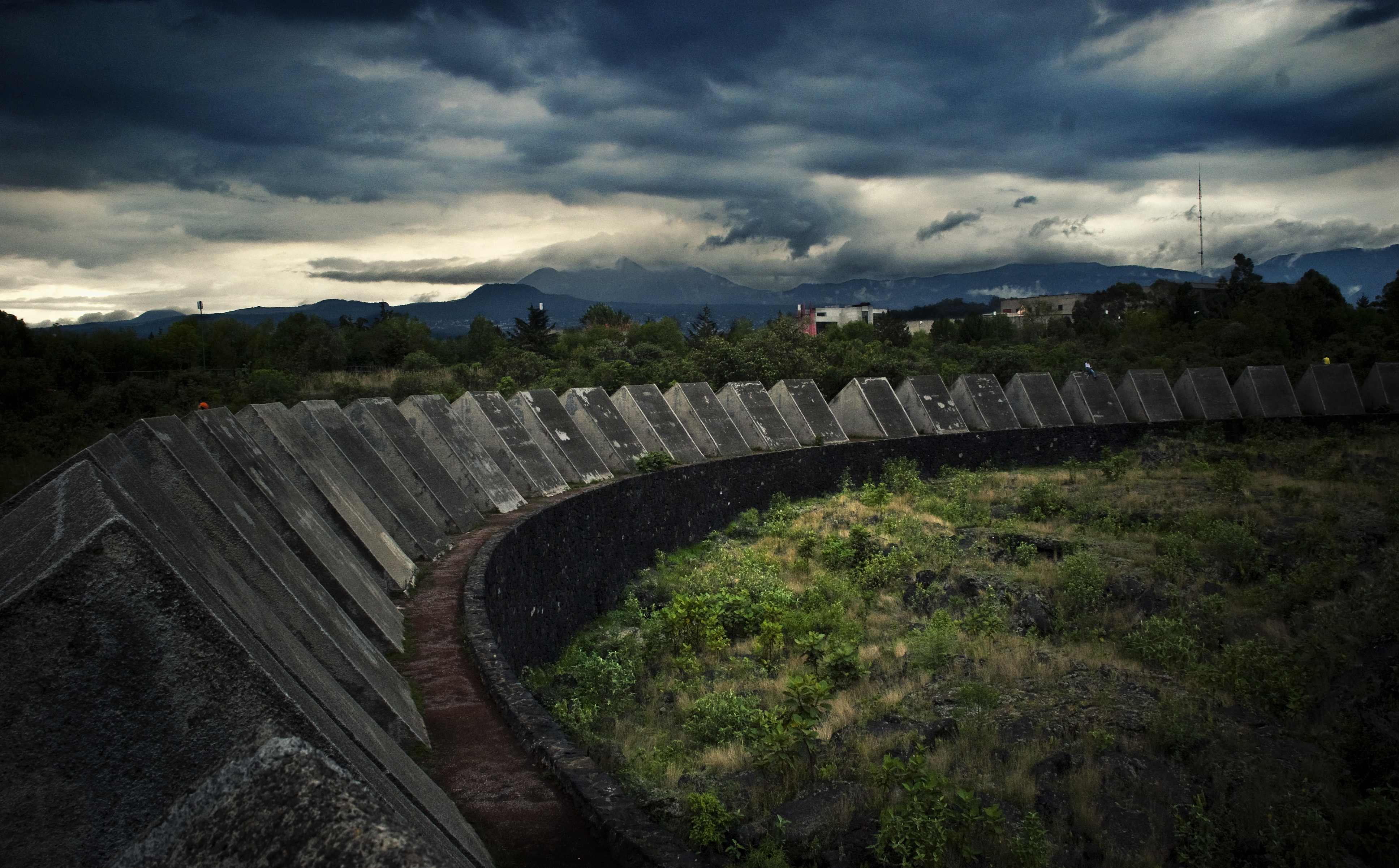 Partial view of the almost 400 feet diameter circular sculpture, consisting of a ring with 64 modules, located at the centre of the "Espacio Escultórico" of Mexican Ciudad Universitaria.